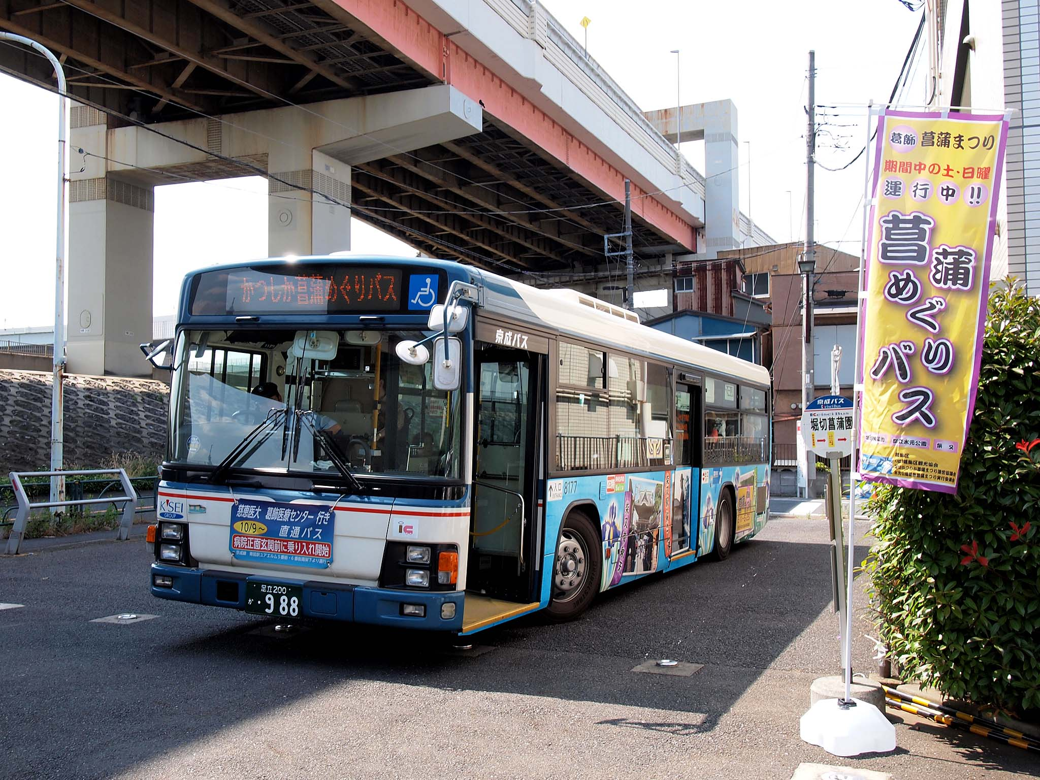 Katsushika Shobu Meguri Bus, special circle route bus for Katsushika Iris Festival on 1st to 3rd weekend of June, stopping at Horikiri Shobu-en (Horikiri Iris Garden), Mizumoto Park, Kanamachi Station and Shibamata. Model: Isuzu Erga KL-LV280N License plate: TKA200 KA0988 Place: Horikiri Iris Garden Bus stop, Katsushika Ward, Tokyo Japan